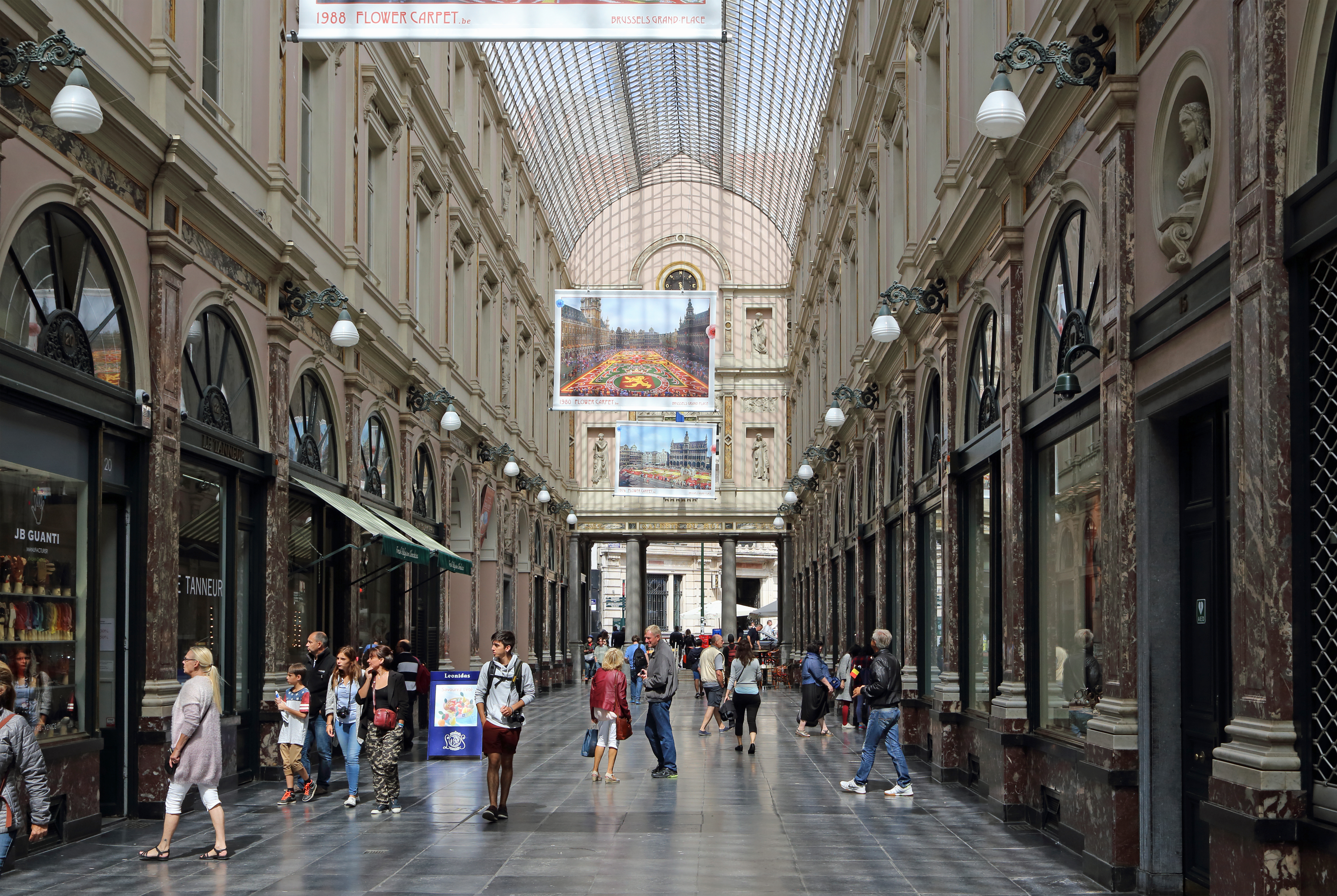 Brussels (Belgium): Koningsgalerij / Galerie du Roi